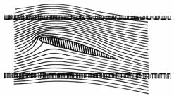 Airstreams around an airfoil in a wind tunnel